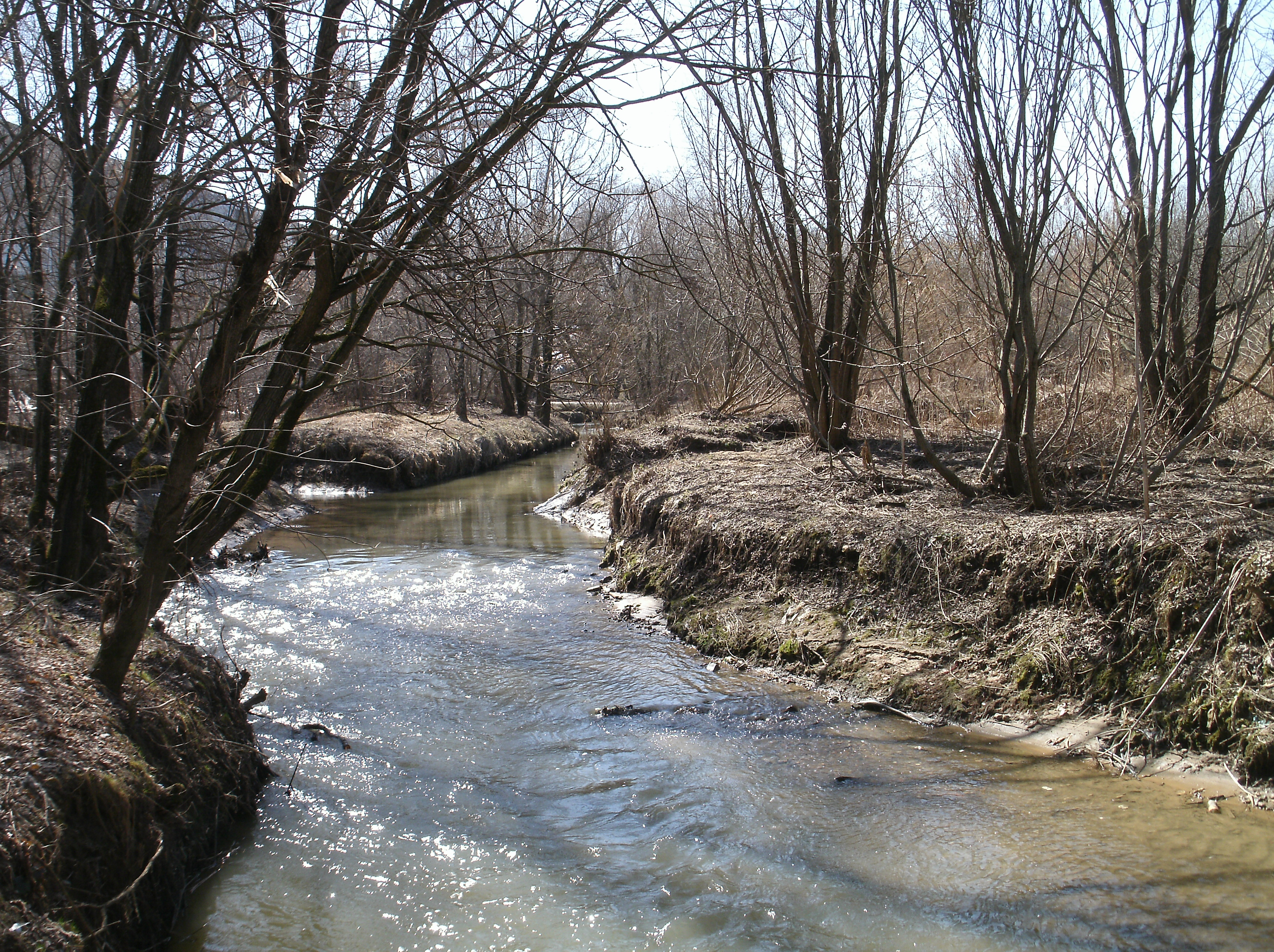 Ramenki valley along Michurinsky Avenue